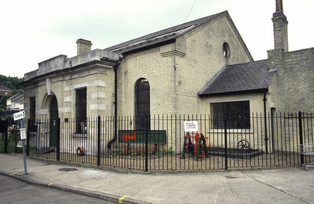 Brook Pumping station, Chatham Now a museum. The original diesel driven centrifugal pumps have been retained and can be seen working. There are also steam and hot air engines to see.